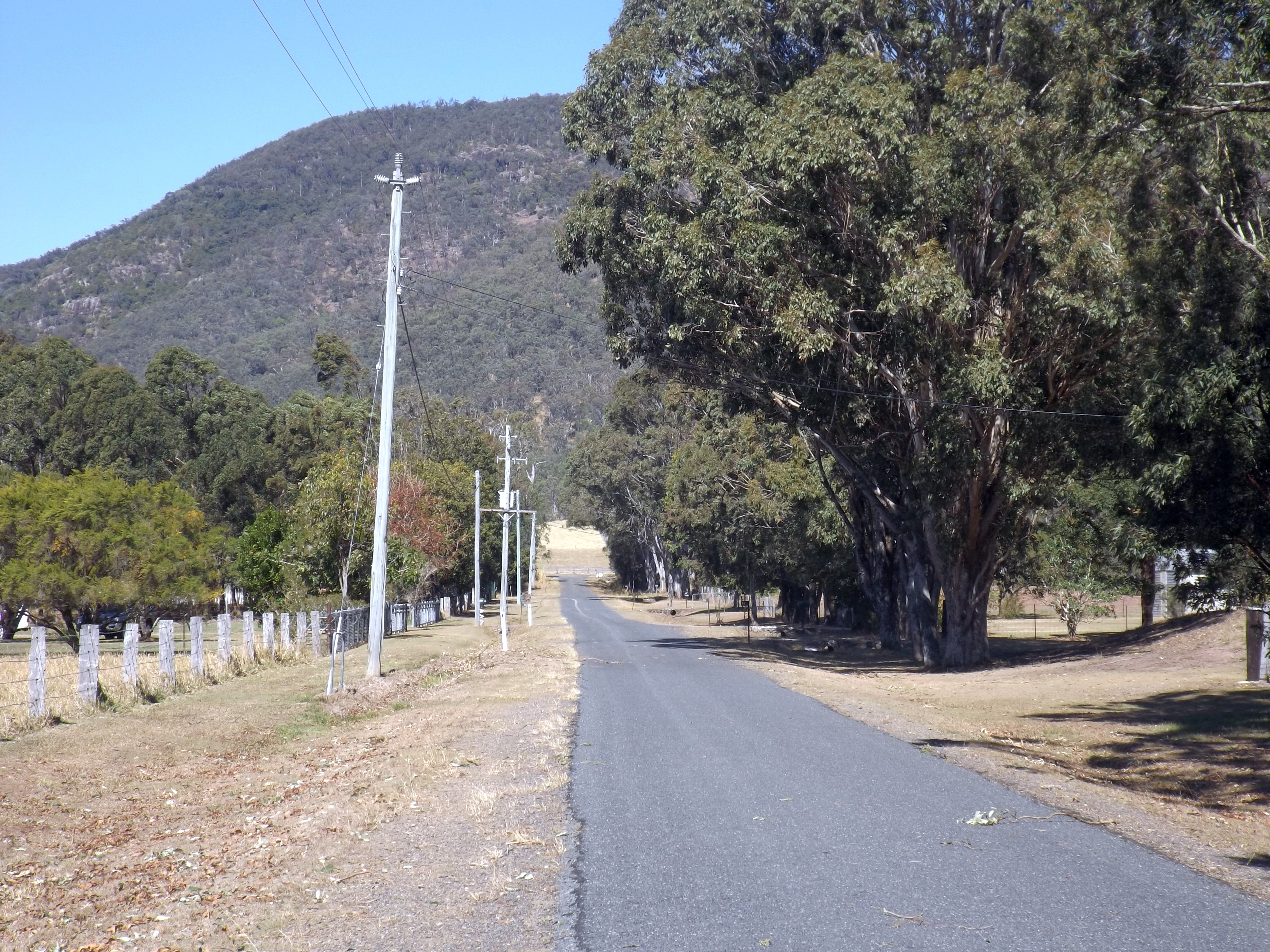 Photo of Doyles Road at Mount Archer, Somerset Region, Queensland, Australia.